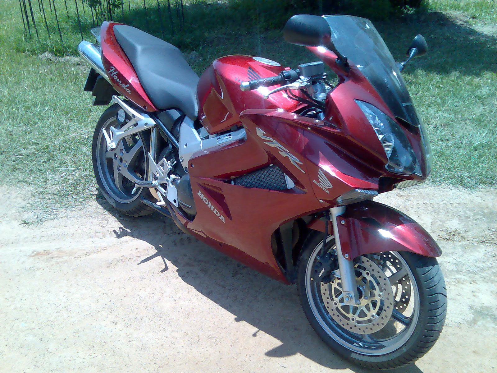 Not my bike but I would like to have one.